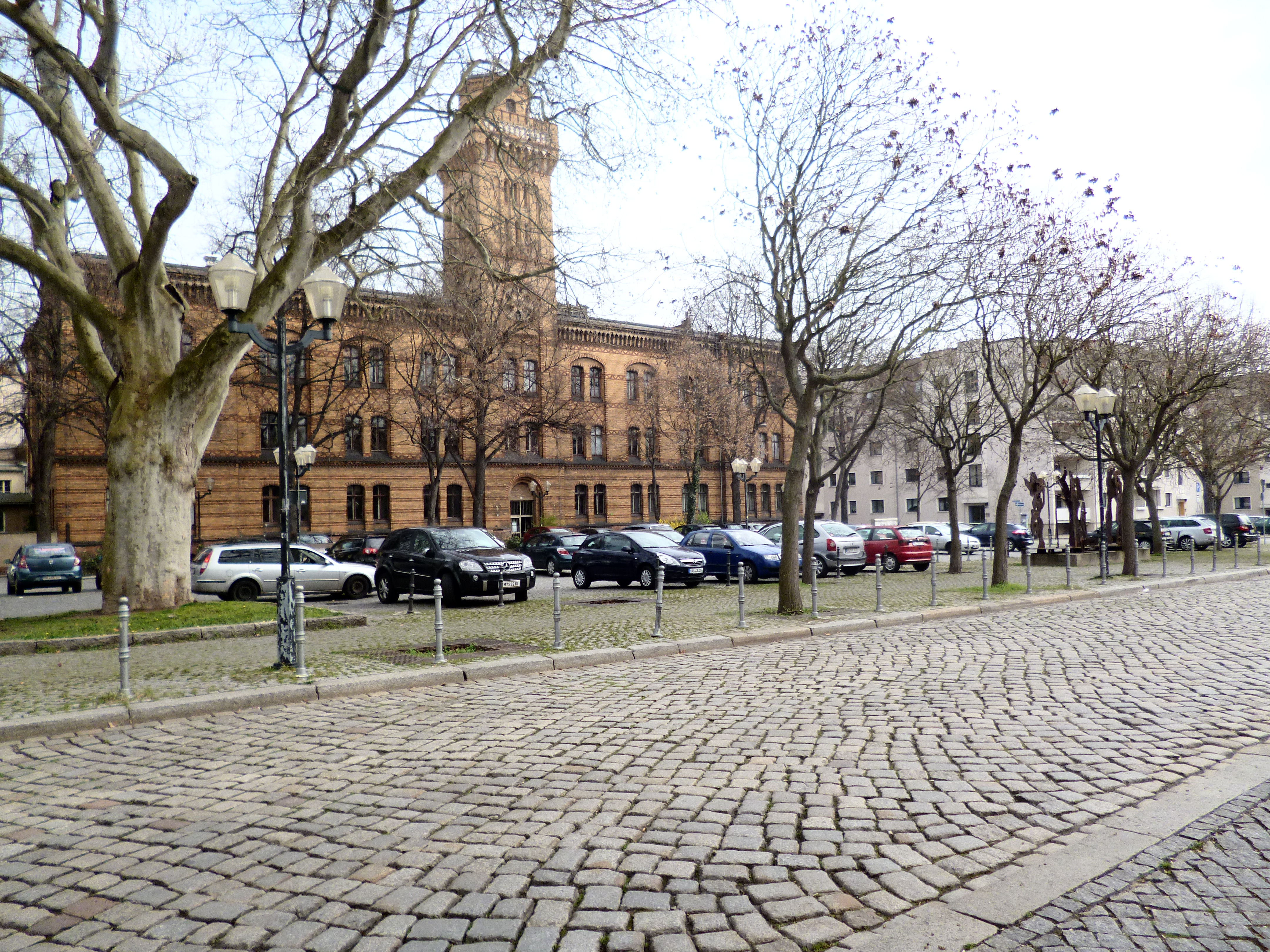 Square Friedemann-Bach-Platz in Halle (Saale)